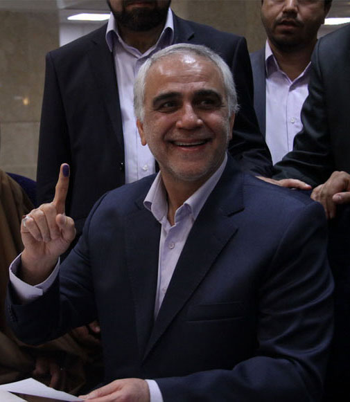 Parviz Kazemi (older brother of Mahmoud Ahmadinejad) registered his candidacy in 2013 Iranian presidential election.